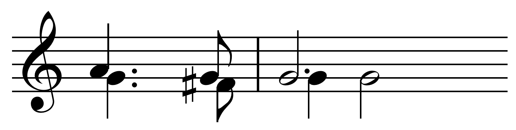 Corelli clash in a cadence on G.